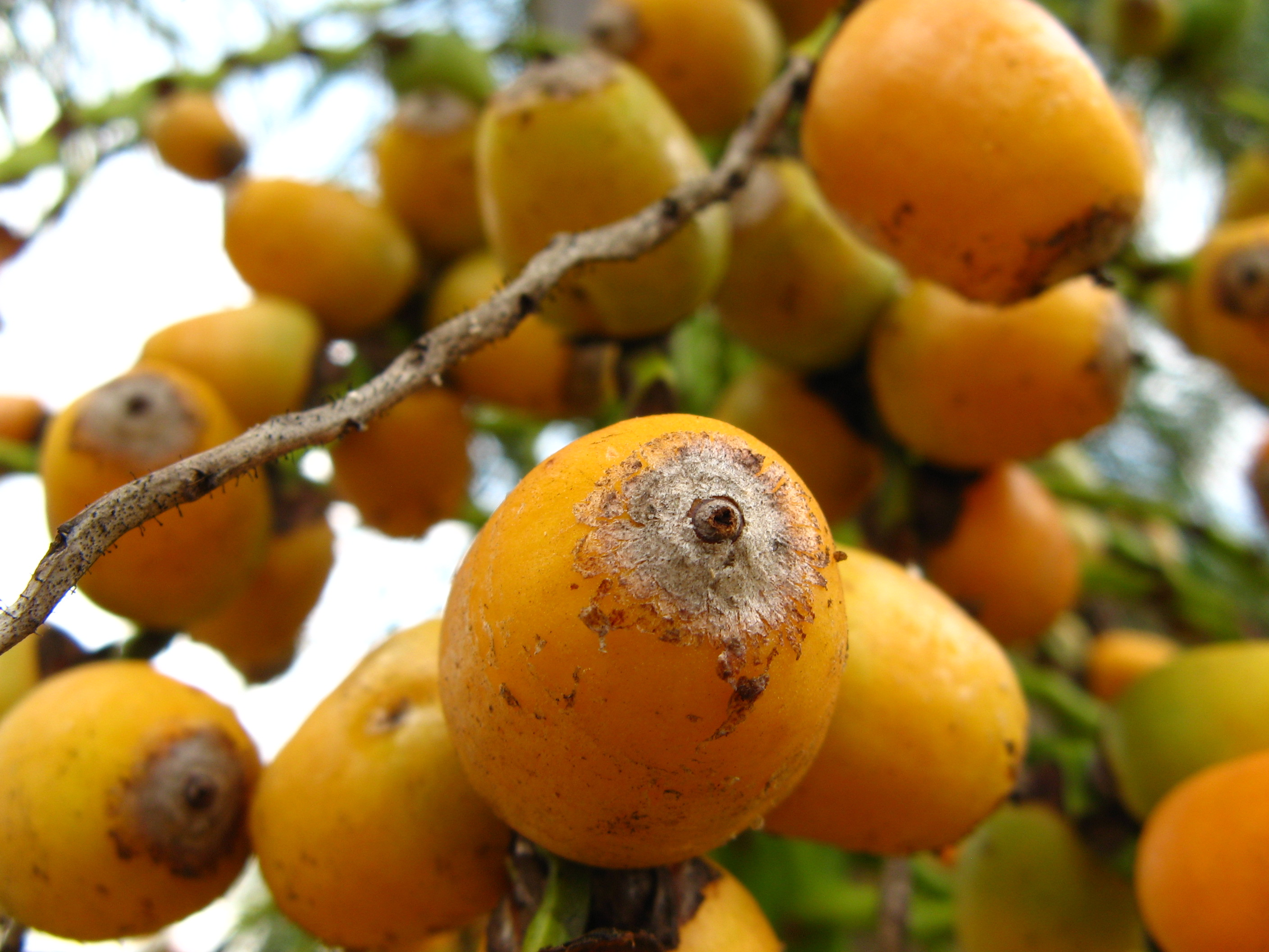 Jerivá (Syagrus romanzoffiana) fruits CERET S PAULO Brazilian tree